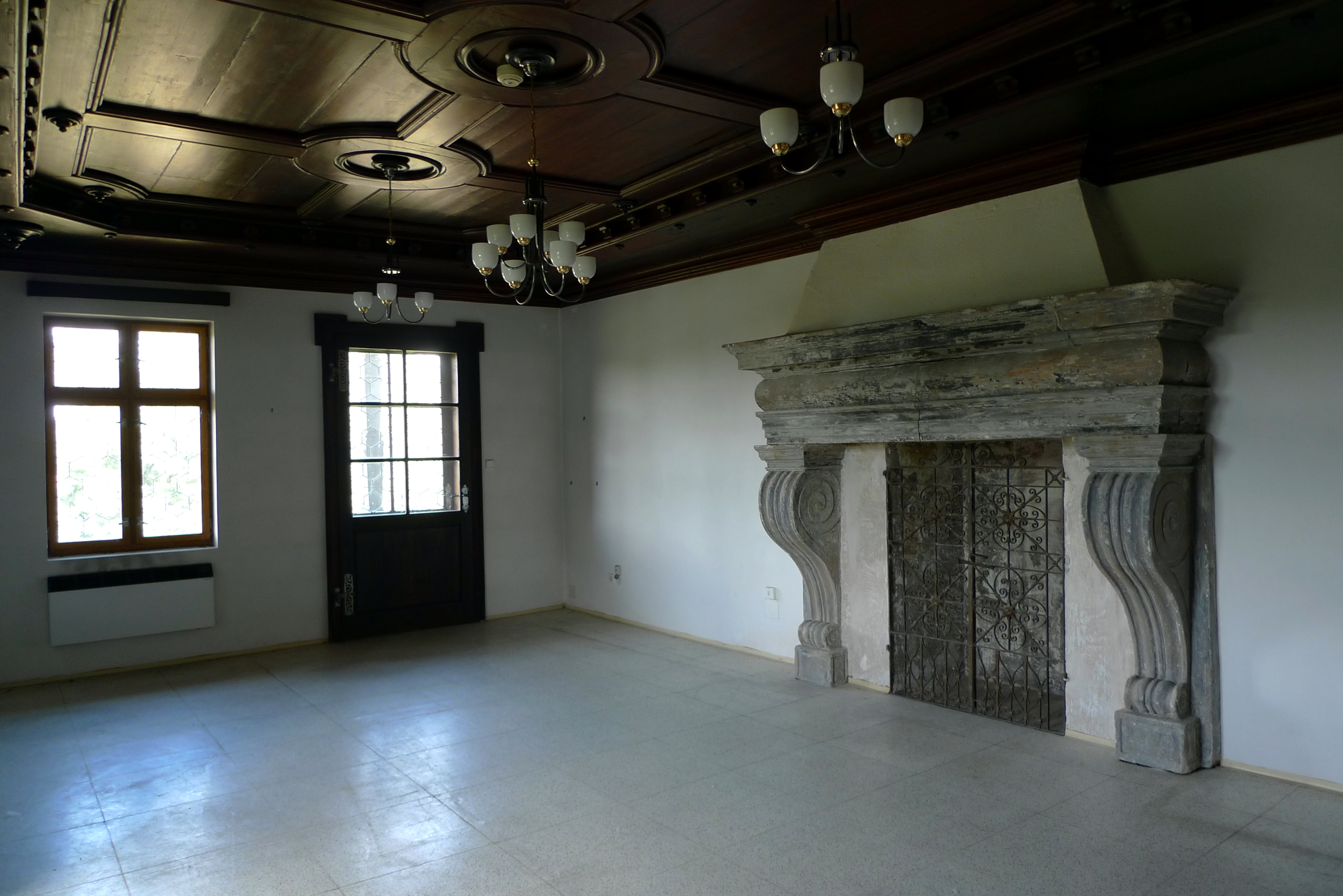 Castle in Přerov nad Labem, Czech Republic